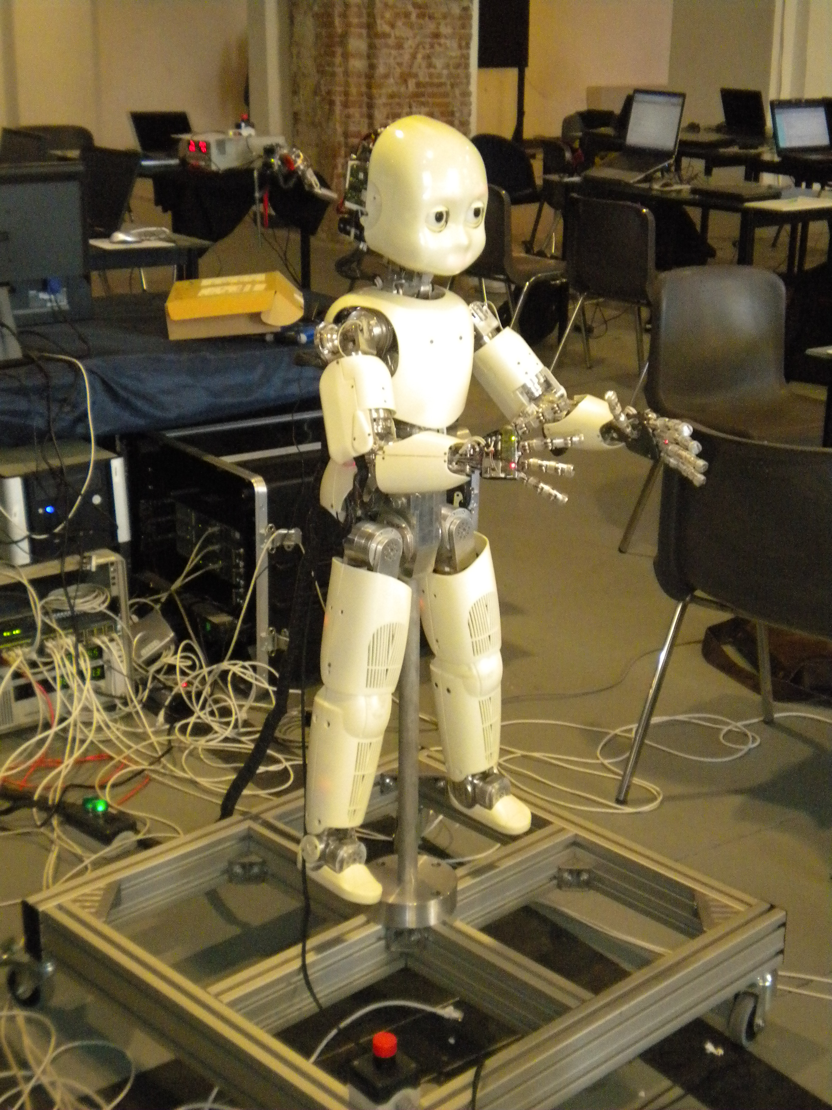 An iCub robot mounted on a supporting frame. The robot is 104 cm high and weighs around 22 kg